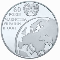 Coin of Ukraine